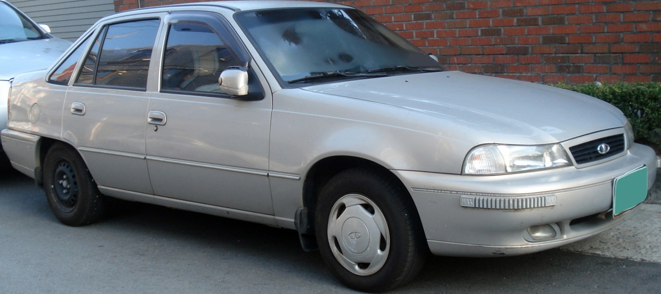 Daewoo Cielo